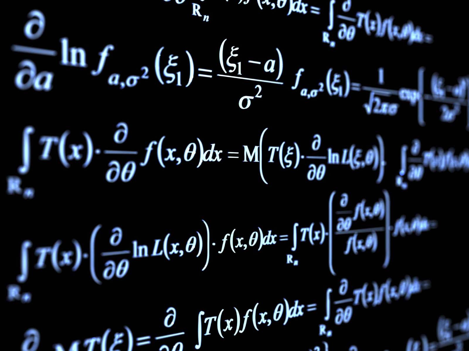 Random mathematical formulæ illustrating the field of pure mathematics